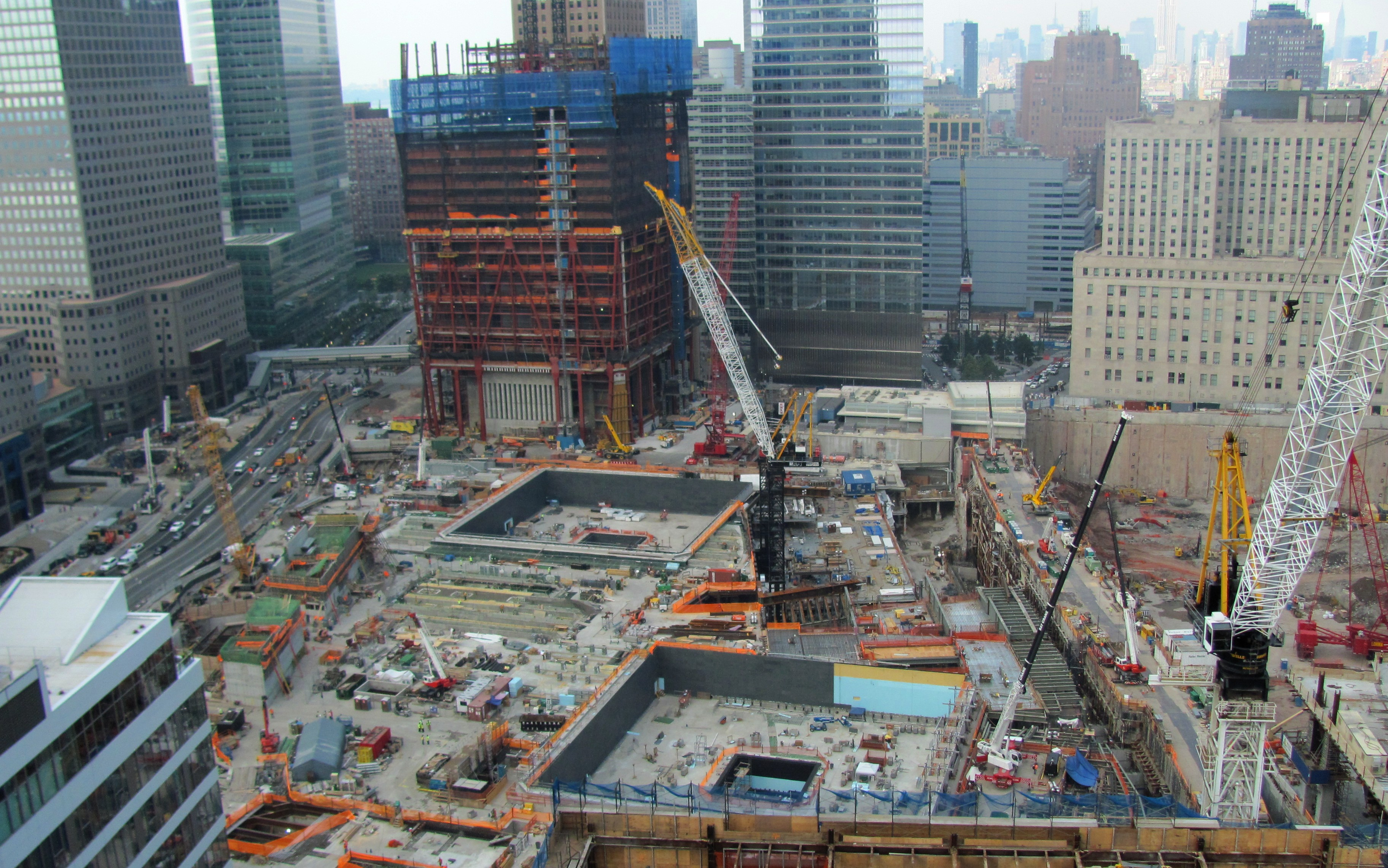 WTC Site from W Hotel 7/28/2010